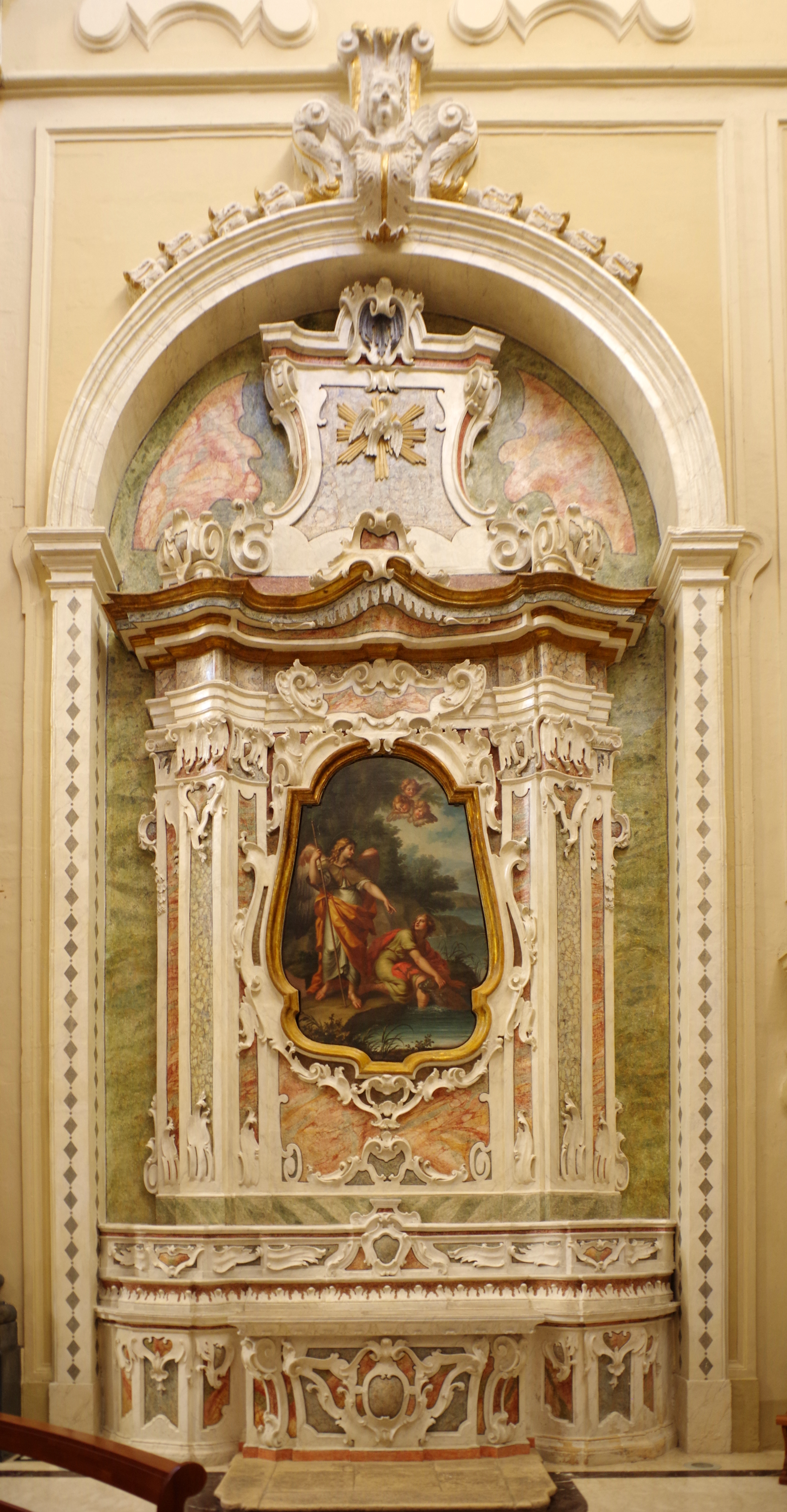 Italy, Martina Franca, San Martino church, altar San Raffaele